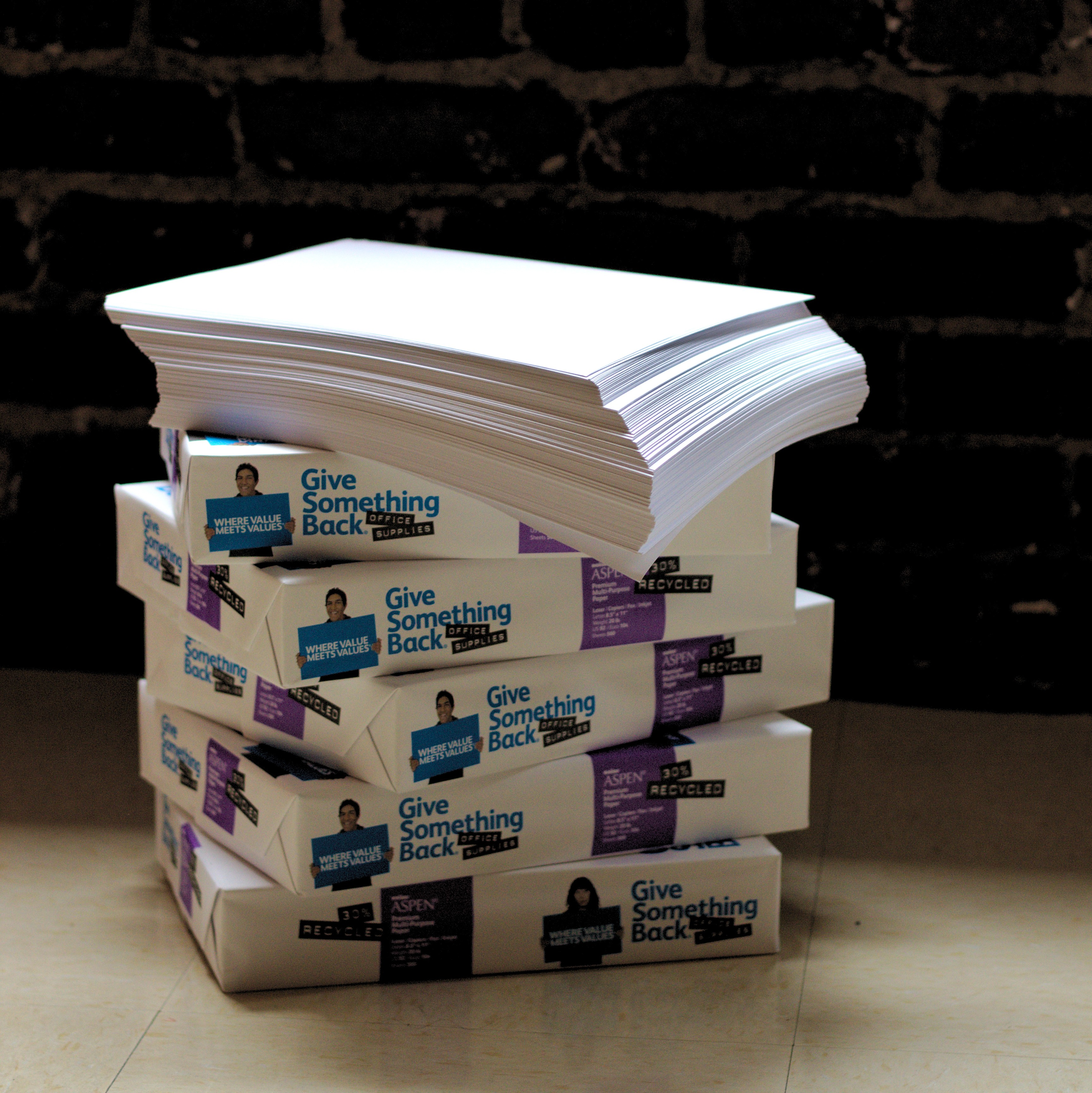 reams of paper, six of them, stacked on the floor in front of a brick wall